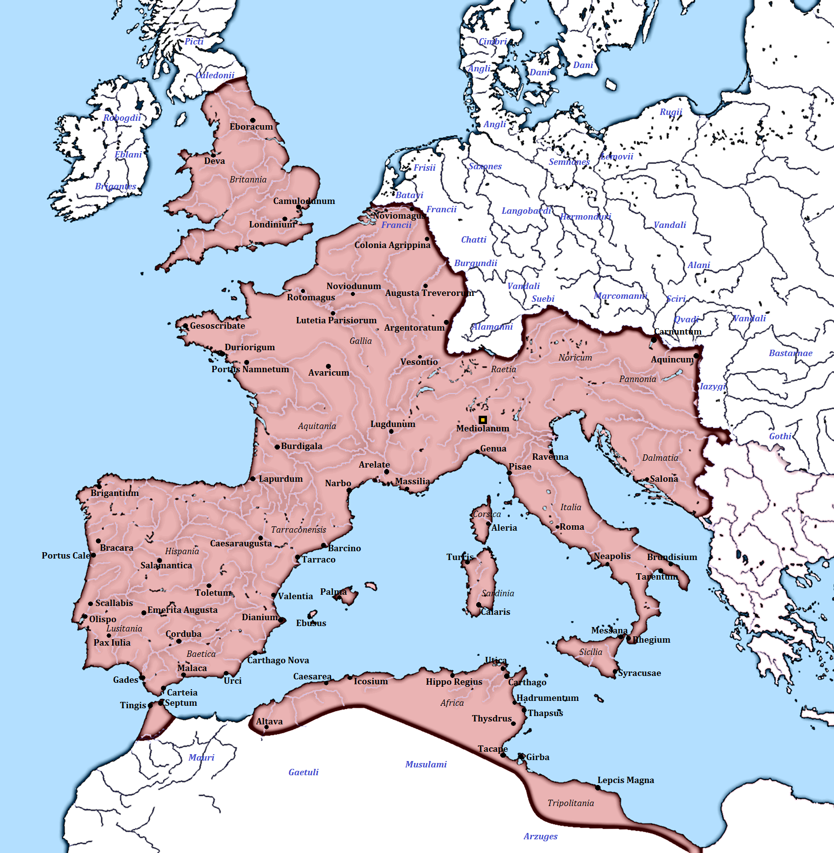 Map of the territory controlled by the Western Roman court in 395 AD with the names of major tribes of various cultural backgrounds marked out in blue.